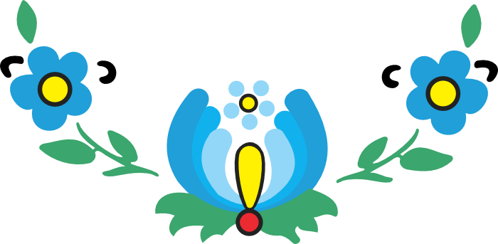 extracted from